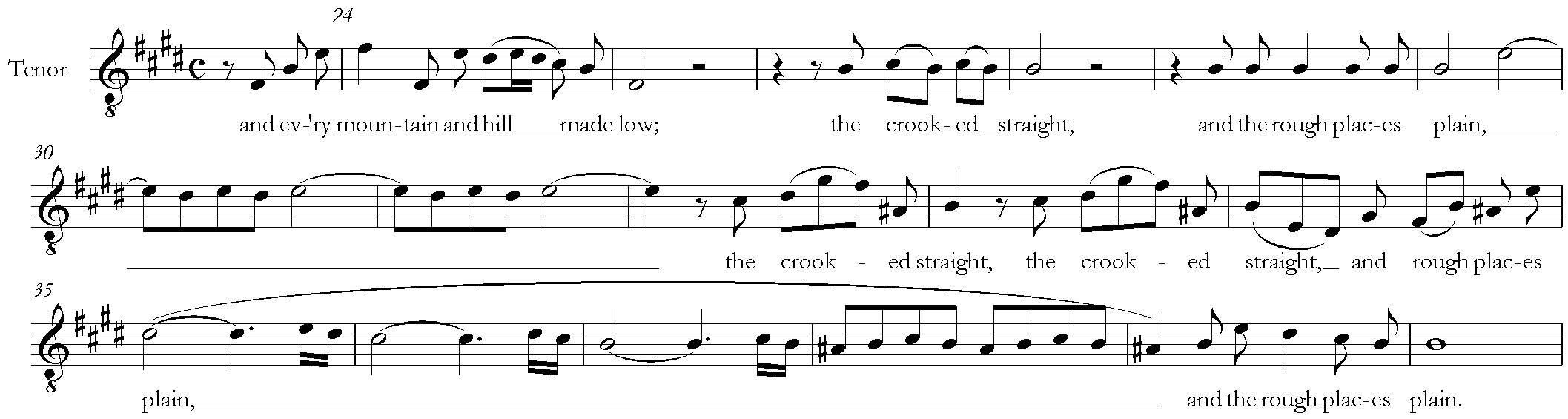 Measures 24-41 of the Tenor line of Every valley shall be exalted Handel's Messiah